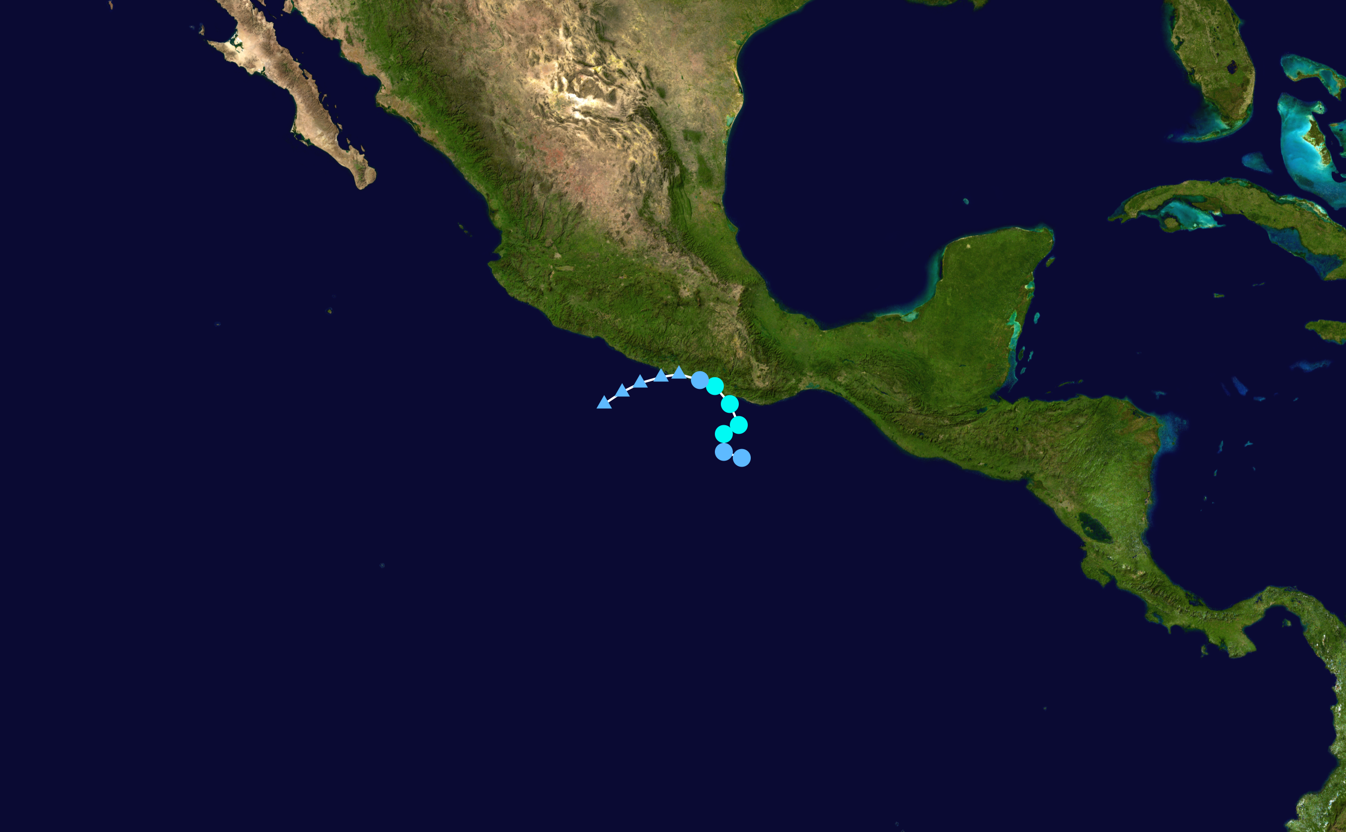 Tropical Storm Carlos (2003) track. Uses the color scheme from the Saffir-Simpson Hurricane Scale.